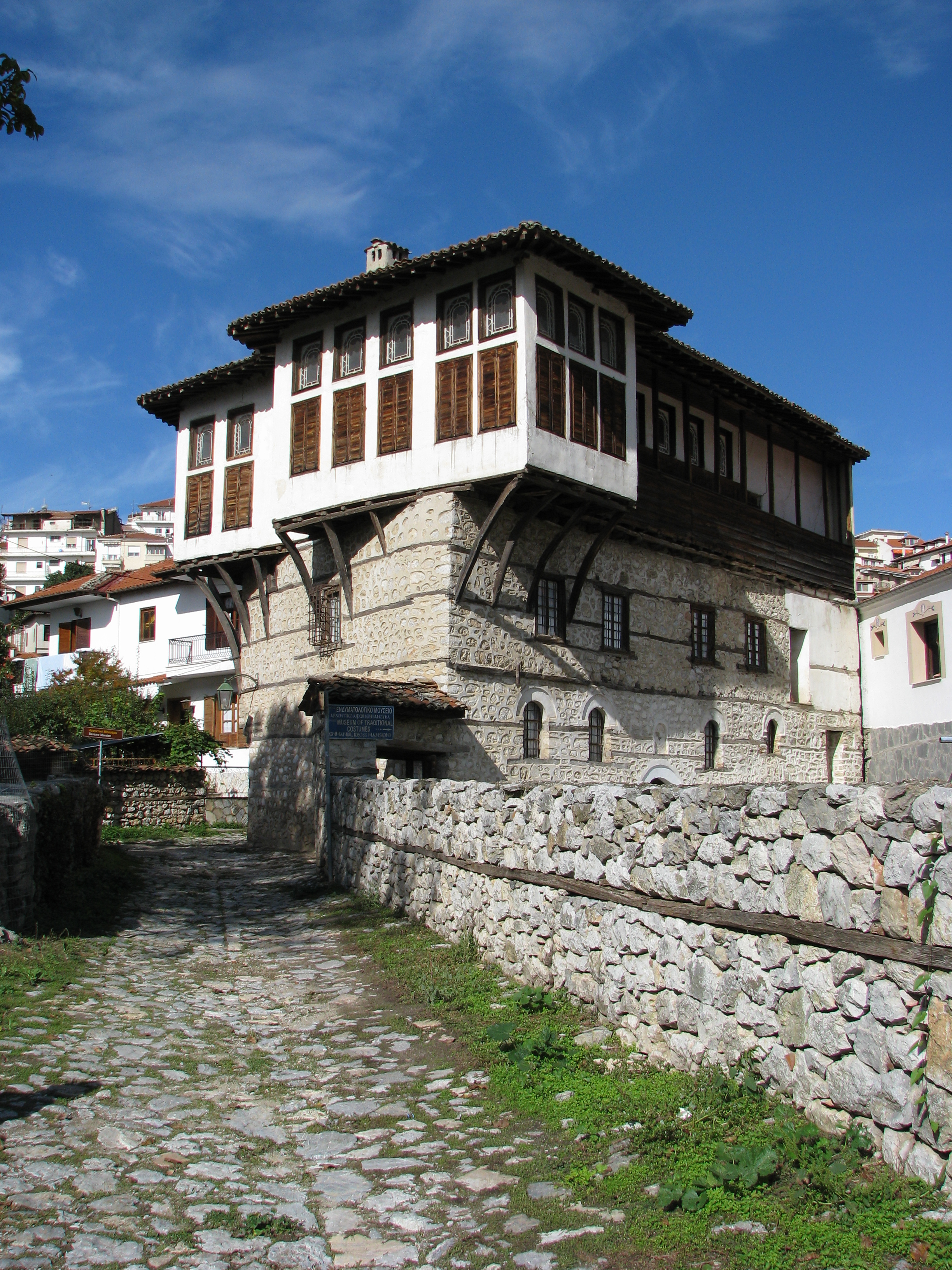 Costume Museum, Kastoria, housed in mansion ("Archontiko") of Emmanouil brothers (18th c.).